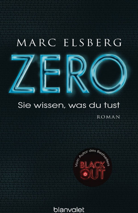 Cover of the German edition of the book Zero – Sie wissen, was du tust by Marc Elsberg (2014).